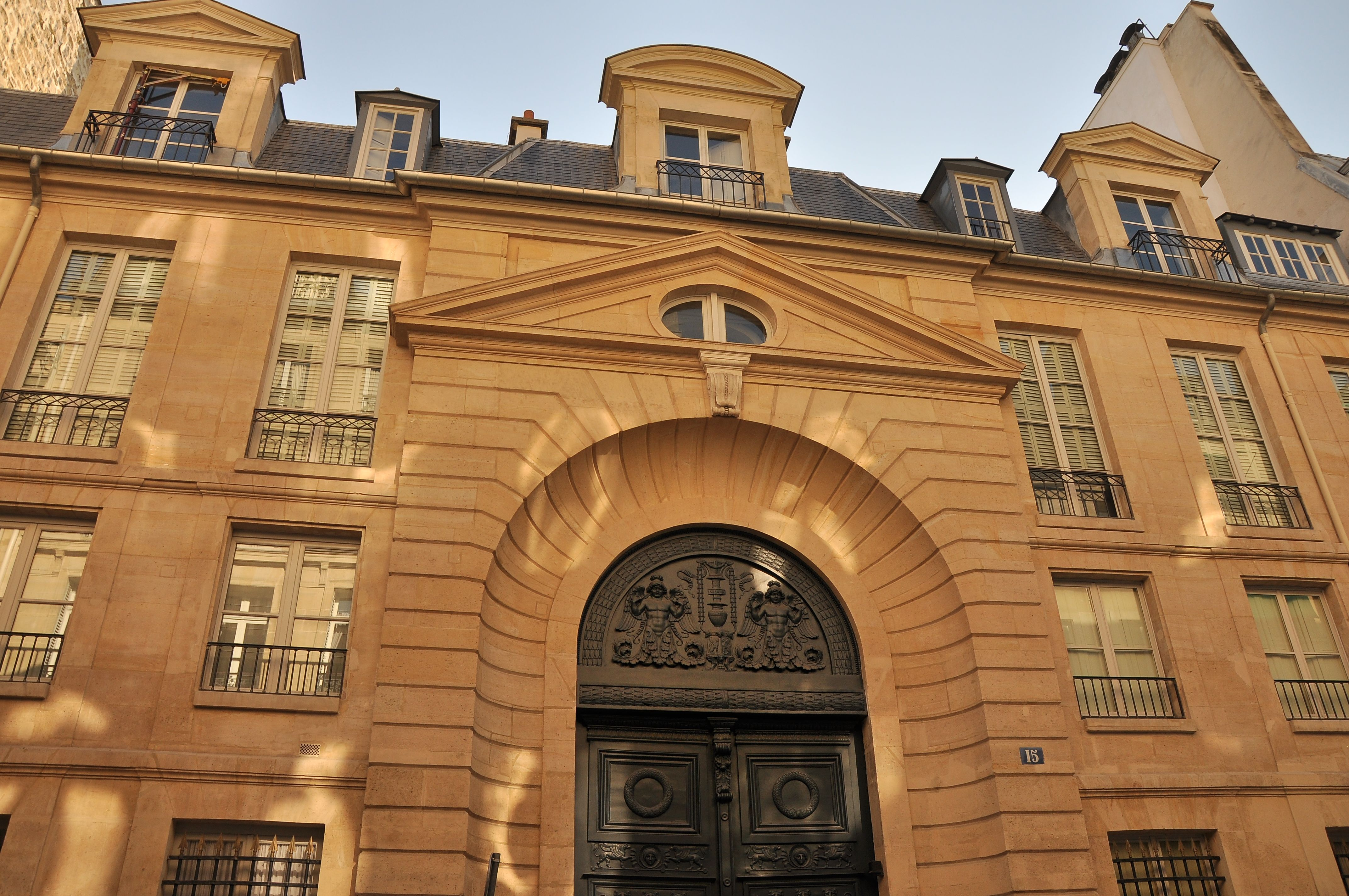 Hôtel d'Aligre or Hôtel de Beauharnais located at 15 rue de l'Université Paris 7th distinct in France